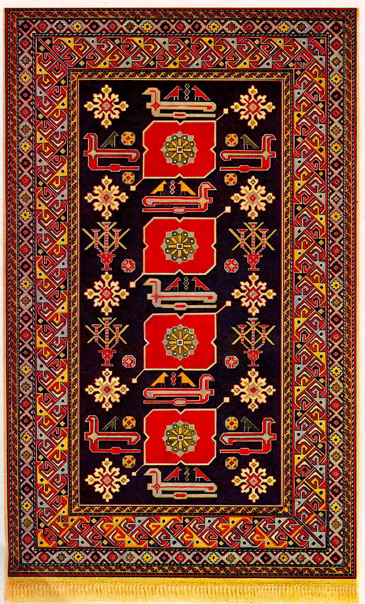 Garagashli rug, Guba school, XIX c.